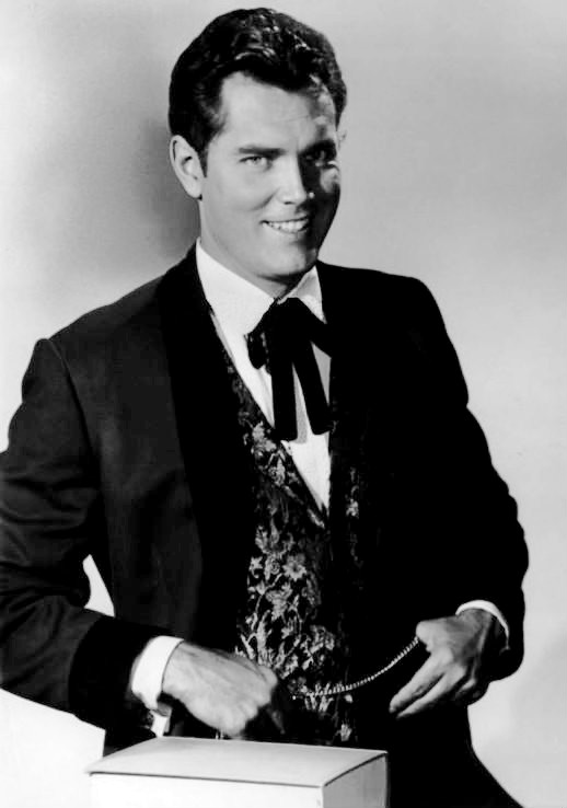 Publicity photo of Jeffrey Hunter from the television program Temple Houston.